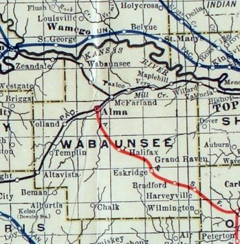 Stouffer's Railroad Map of Kansas, 1915-1918, Wabaunsee County.